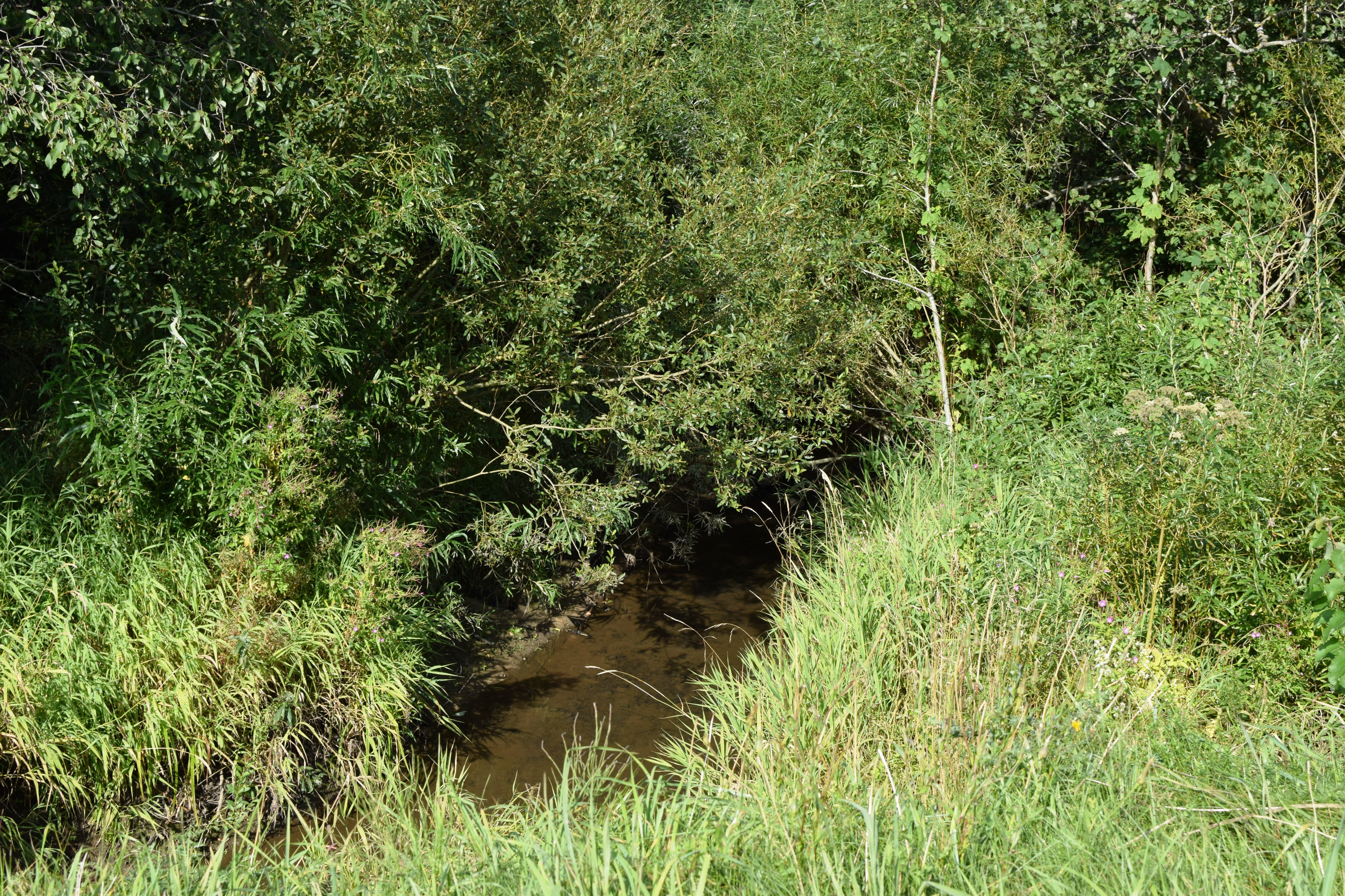 Vaiņode Municipality